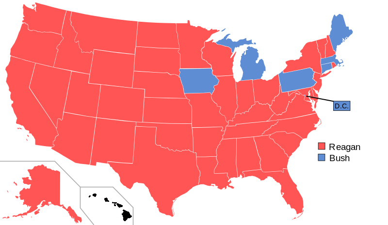 The Hawaii delegation was uncommitted.[1]